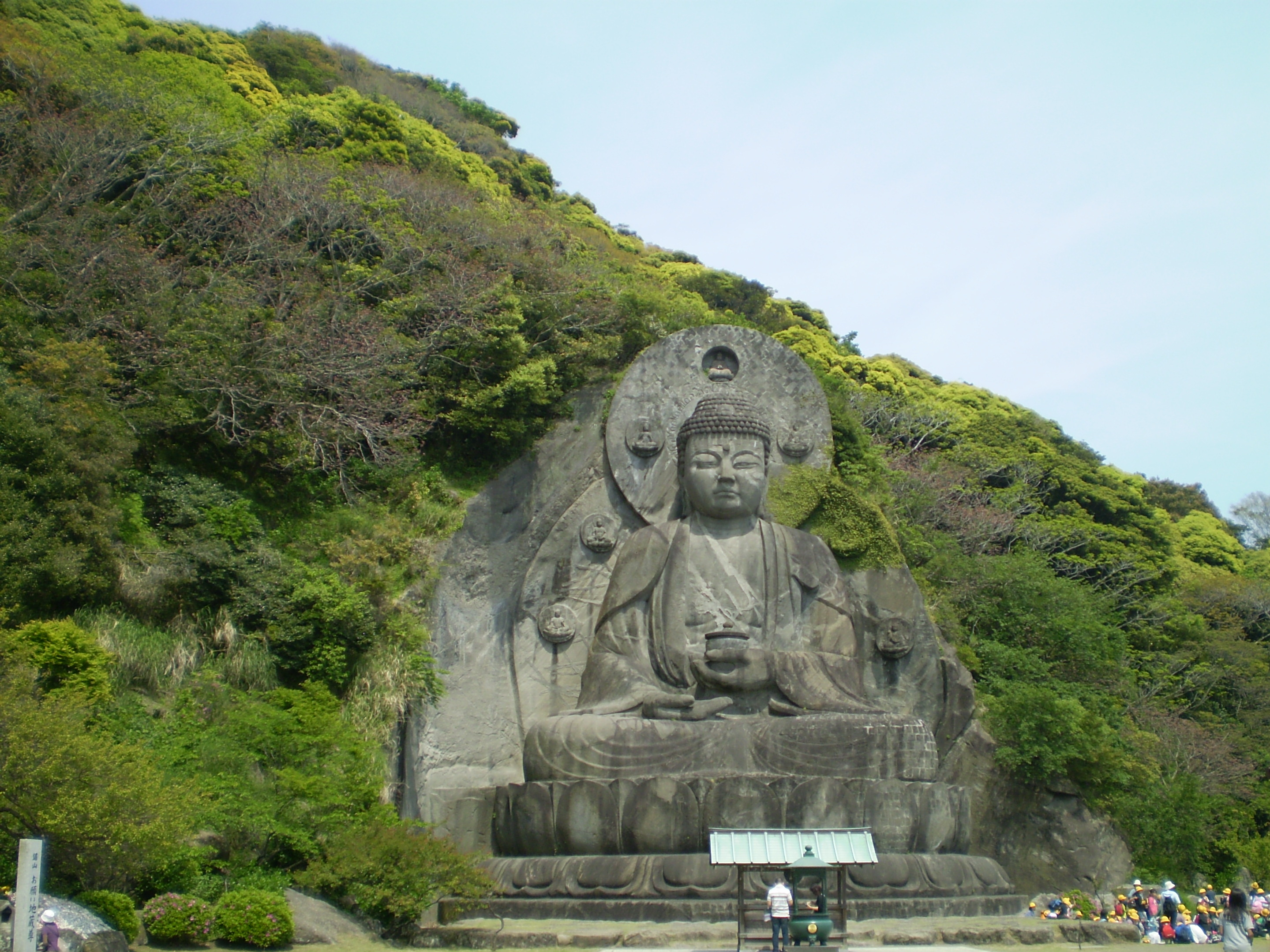 Daibutsu statue on Nokogiri Mountain in Chiba, Japan. Jingorō Eirei Ōno and his apprentices completed the sculpture in 1783. Its gross height is 31.05 meters.